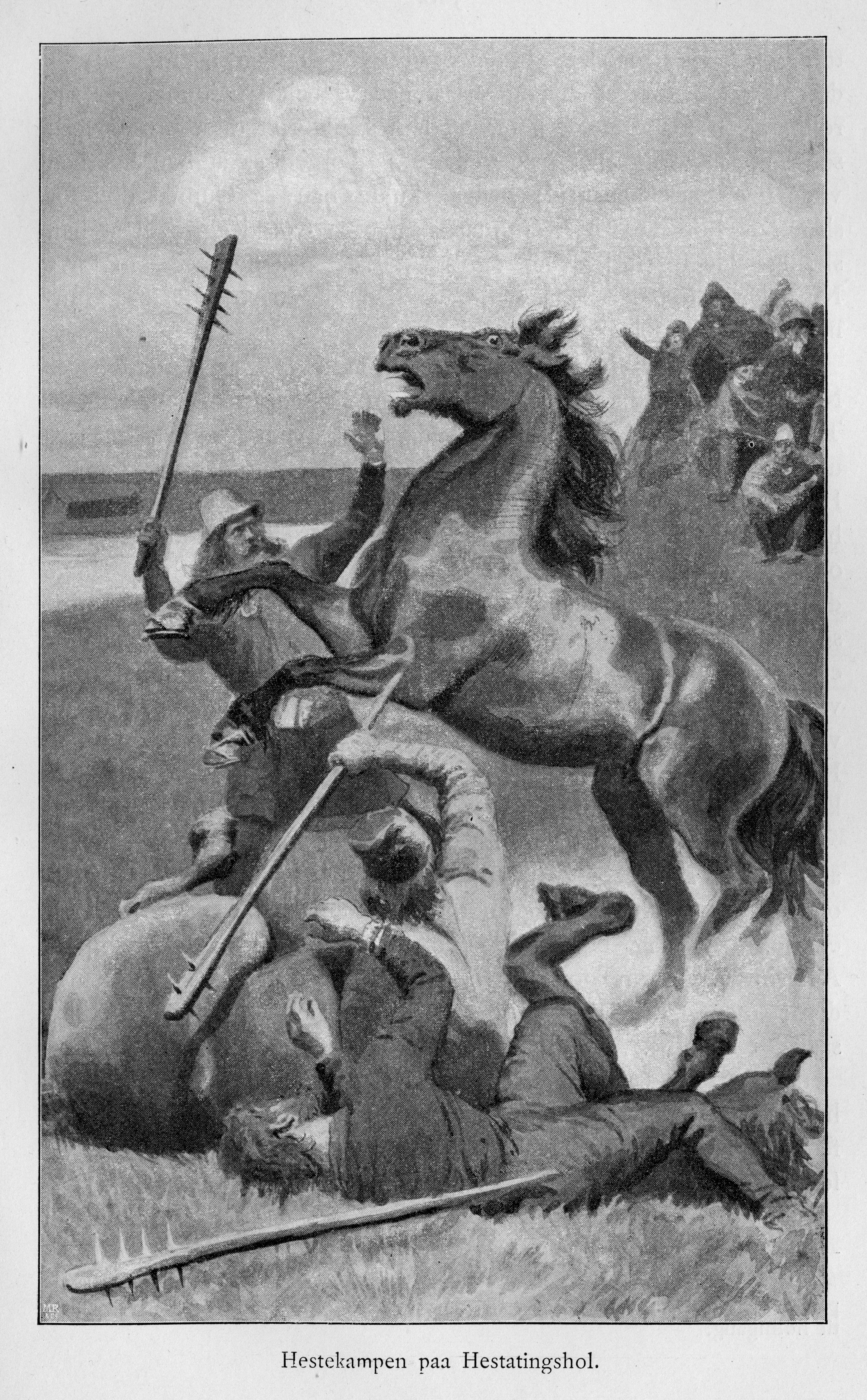 From Njáls saga: Horse fight at Hestatingshol Illustration from "Vore fædres liv" : karakterer og skildringer fra sagatiden / samlet og udggivet af Nordahl Rolfsen ; oversættelsen ved Gerhard Gran., Kristiania: Stenersen, 1898.